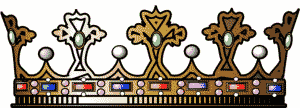 Prince Crown. Design commonly found in France, Italy and Spain (source: Polish article). It is the ducal crown in the kindgom of France